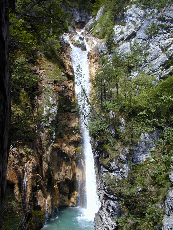 Tschaukofall, waterfall ot the Bodenbach river, in the Karawanken mountains near Ferlach / Carinthia / Austria / EU.